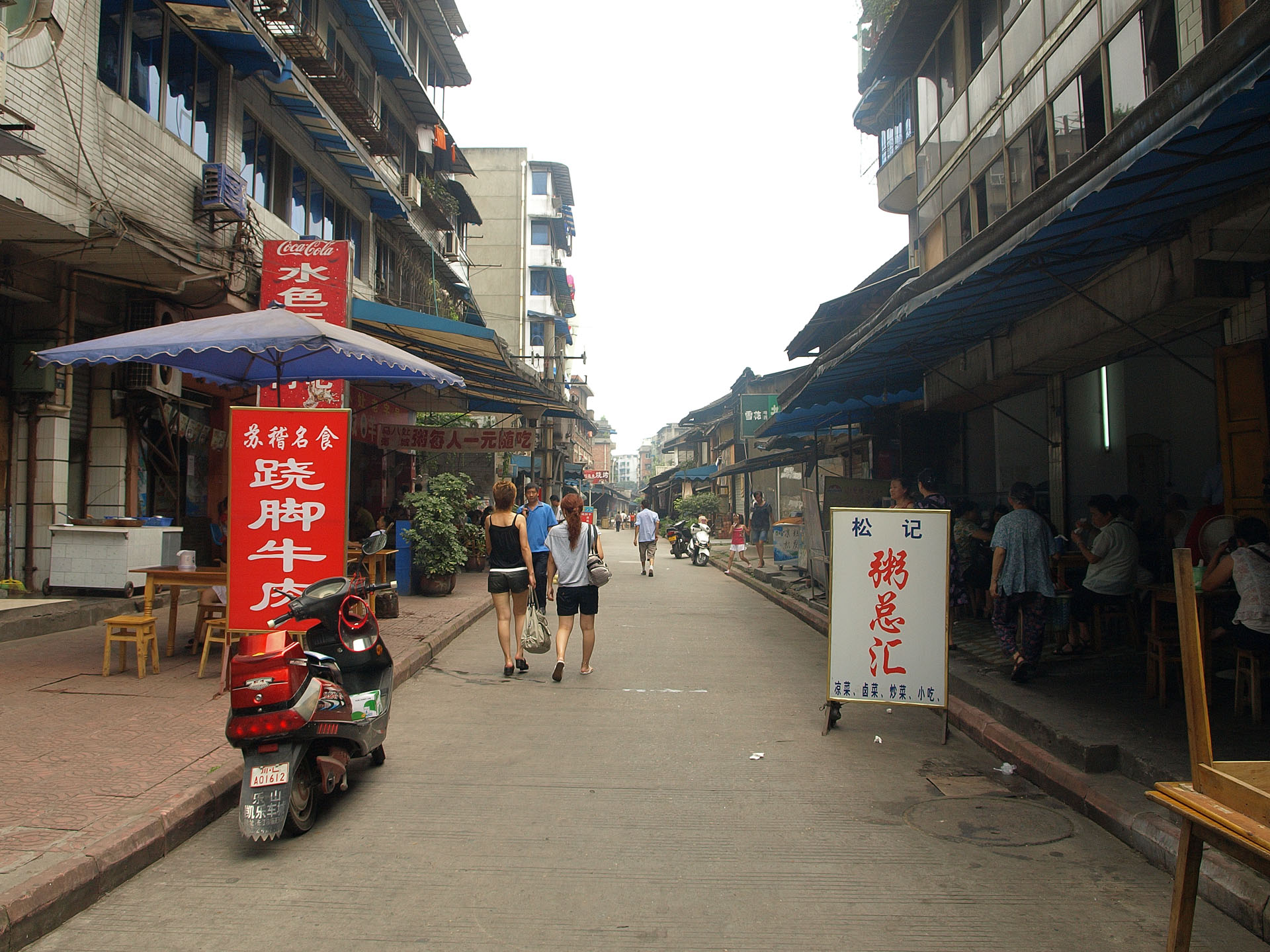 The side road of Leshan City, Sichuan, China.